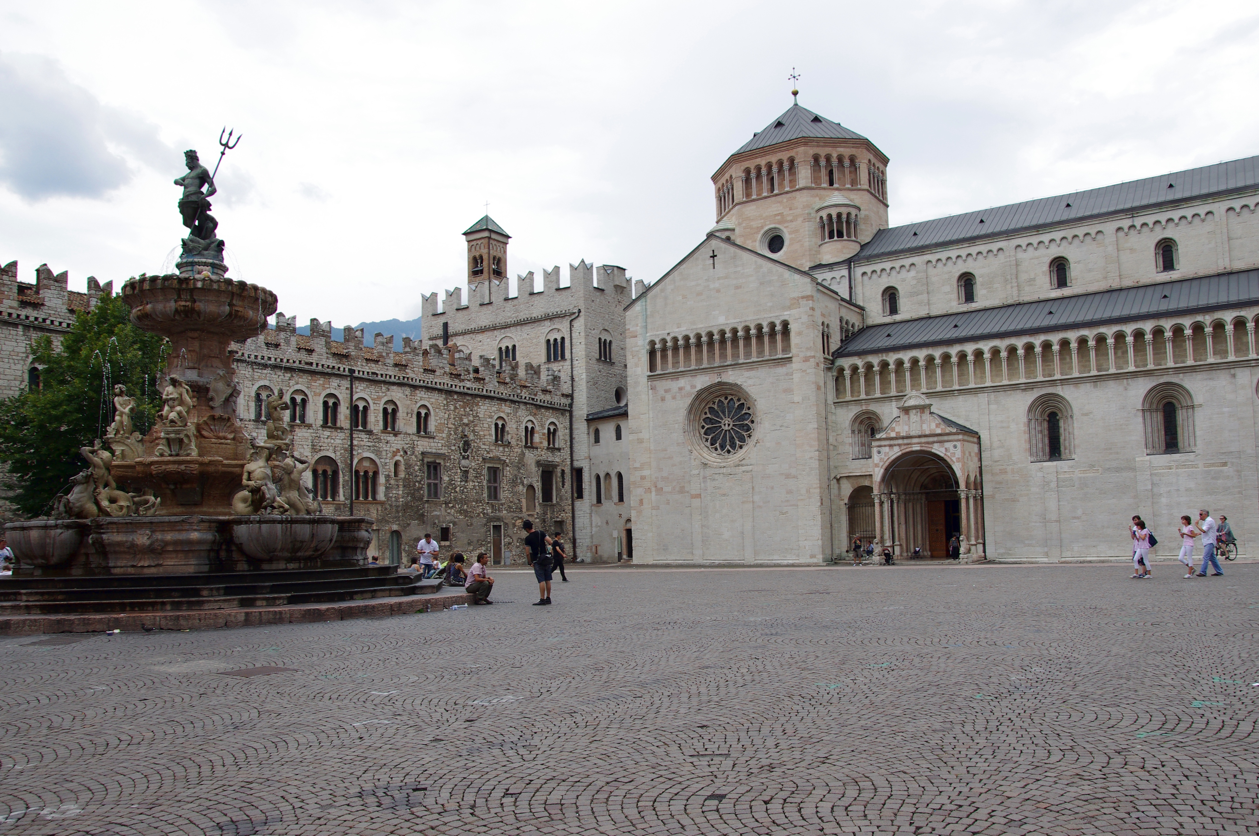 Cathedral of Saint Vigilius and Fountain of Neptune in Trento